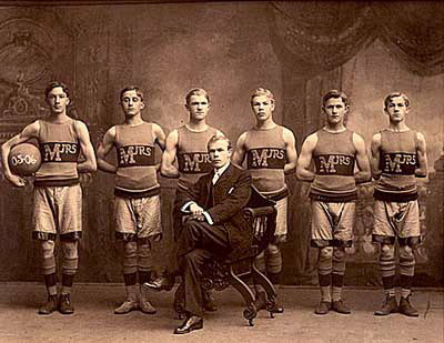 1905 Basketball Team Hehe Flickr data on 2011-08-12 Tags: old picture, Basketball, Public Domain License: CC BY-SA 2.0 User: paukrus Ruslan